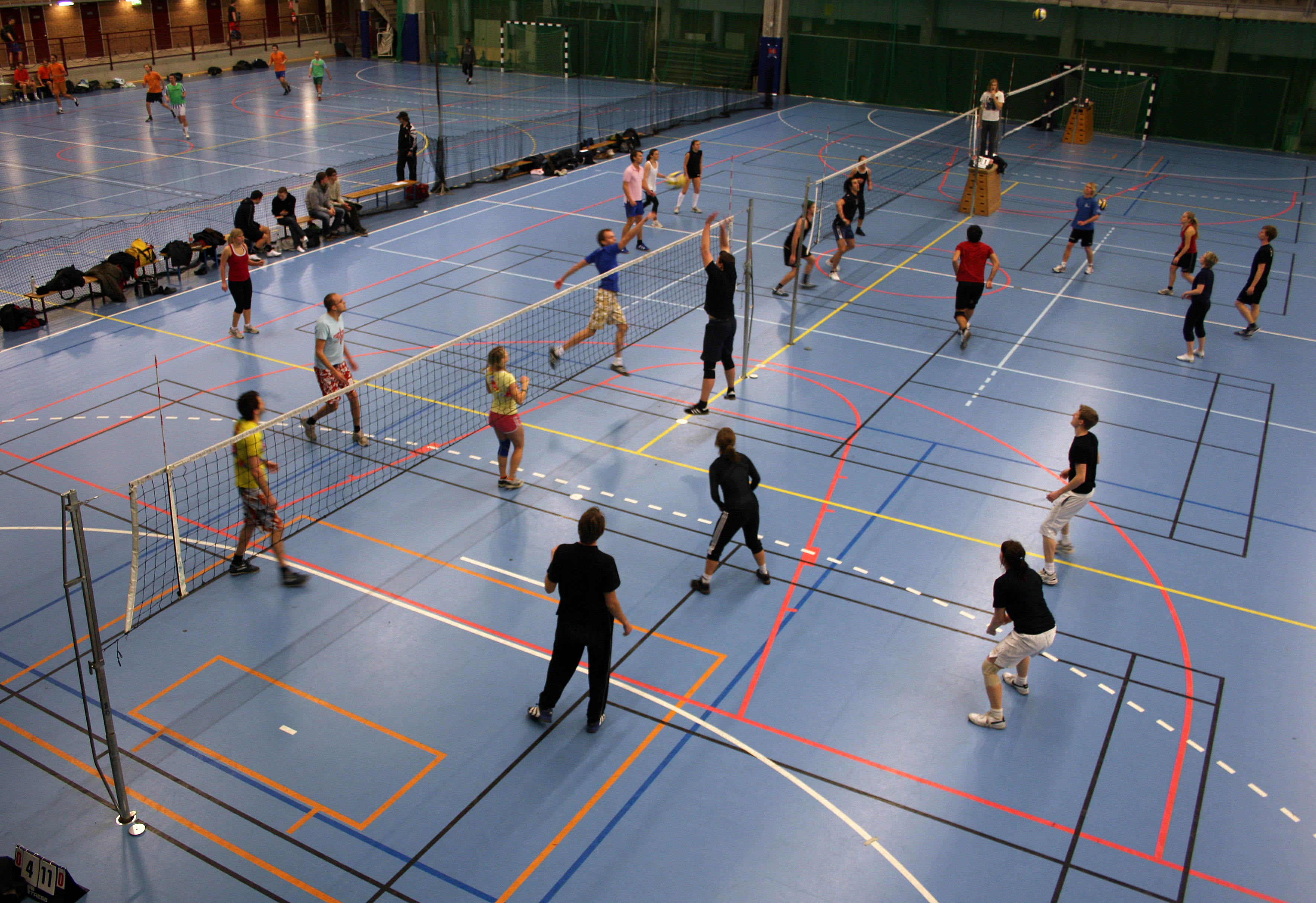 Recreational volleyball series played in Victoriastadion sports venue in Lund, Sweden, organized by Lugi motion.